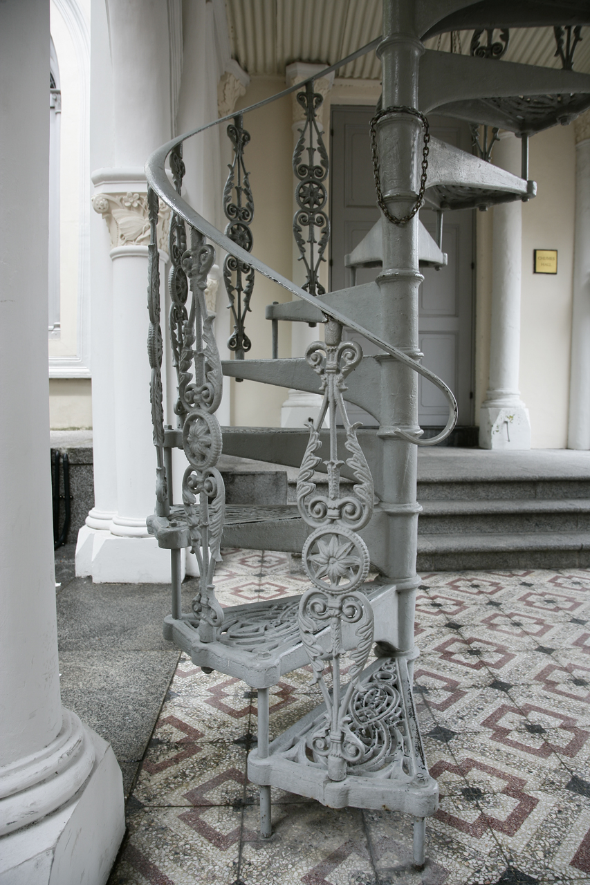 A white metal spiral staircase with lots of ornamentation.